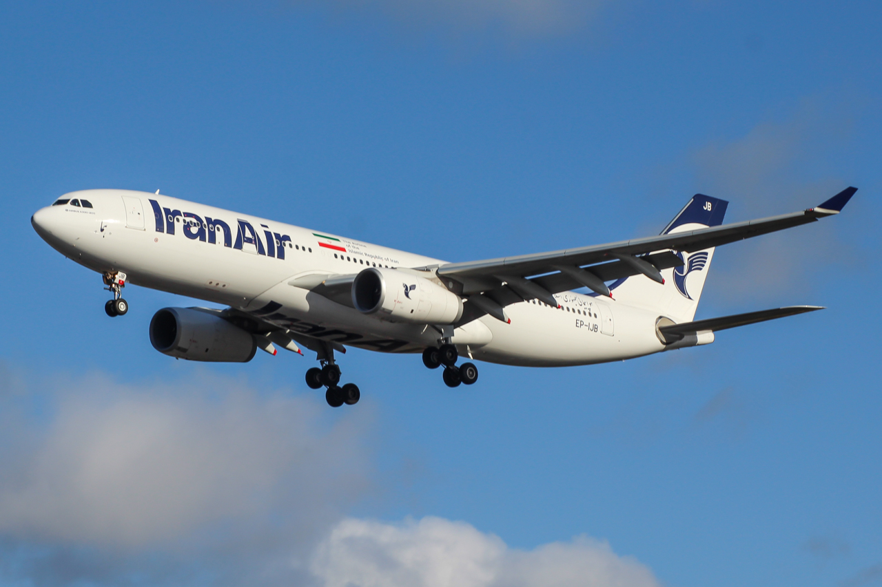 EP-IJB-2